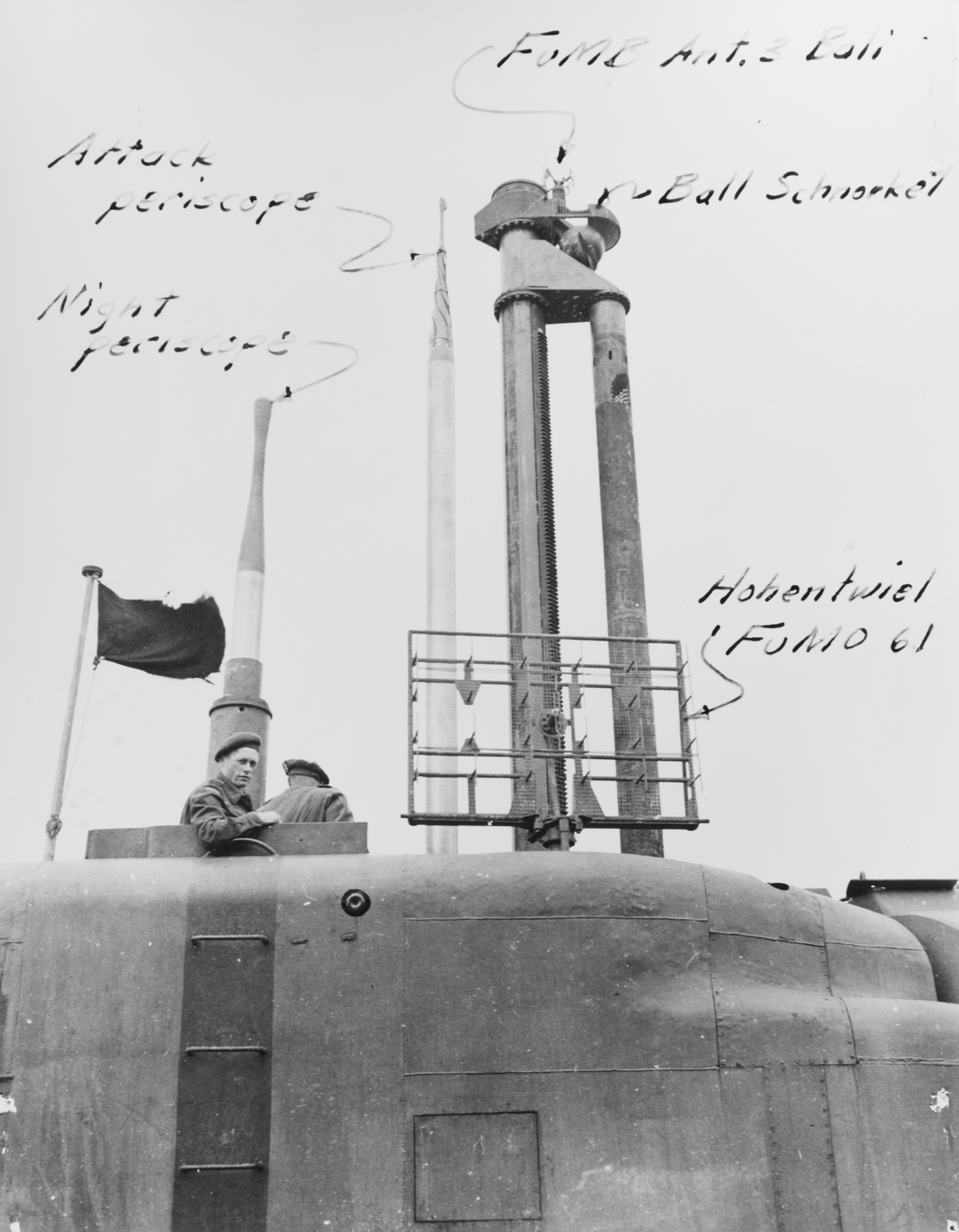 Original Text : "Close up of U-3008's conning tower, shortly after VE Day - 1945", Eratum:Stern Zwillings-Flak indicates Typp XXI U-Boat